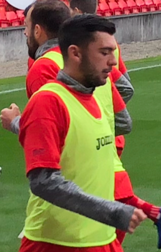 Reece Cole warming up at Firhill Stadium, Glasgow.